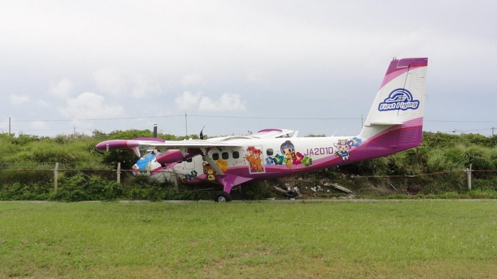 First Flying Flight 101 wreckage